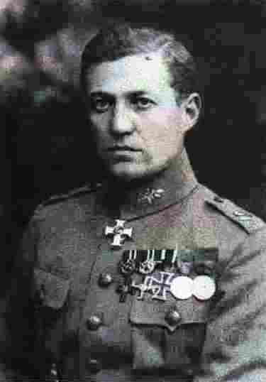 Swedish and Finnish Army officer Martin Ekström (1887-1954)